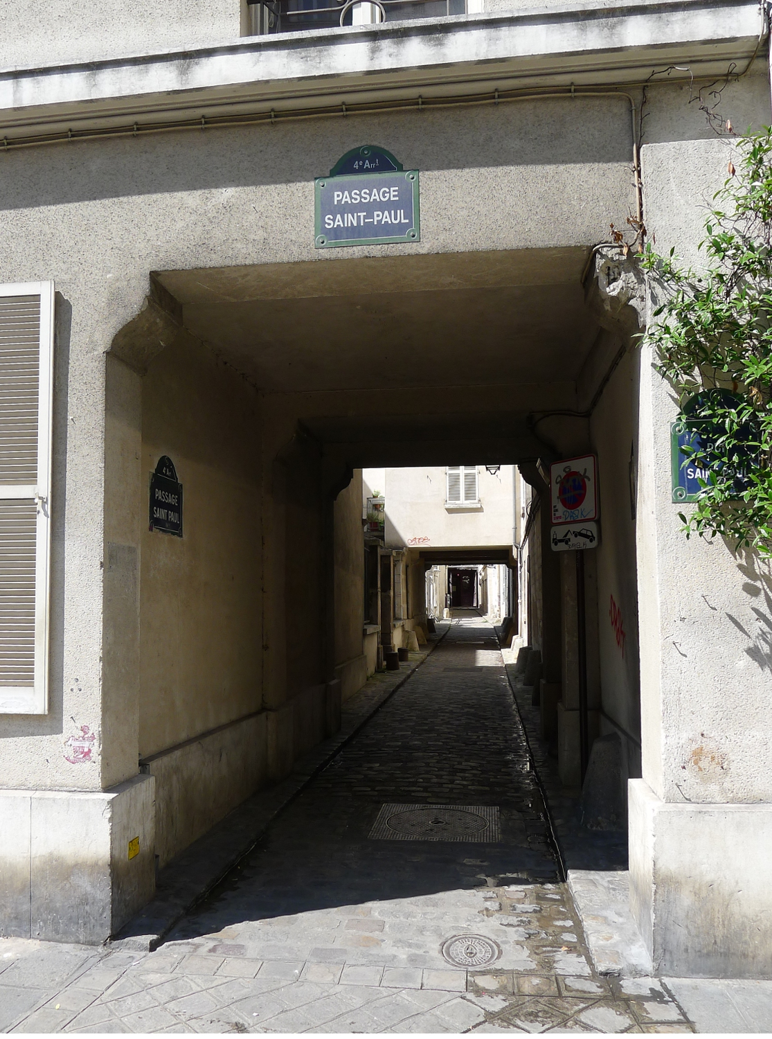 Passage Saint-Paul - Paris